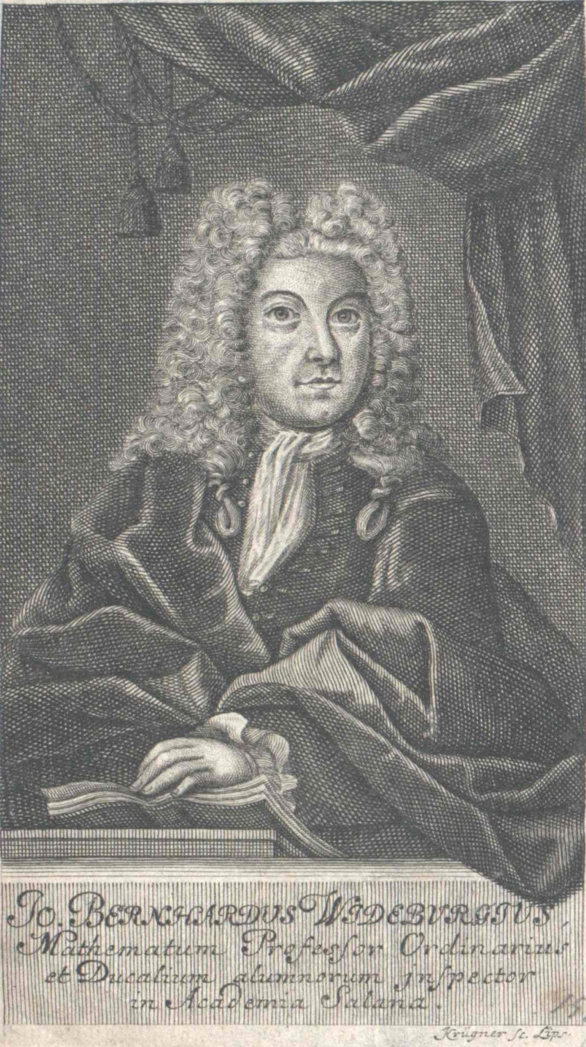 Johann Bernhard Wiedeburg (1687-1766) german Mathematician and Astronomer